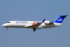 nothing else